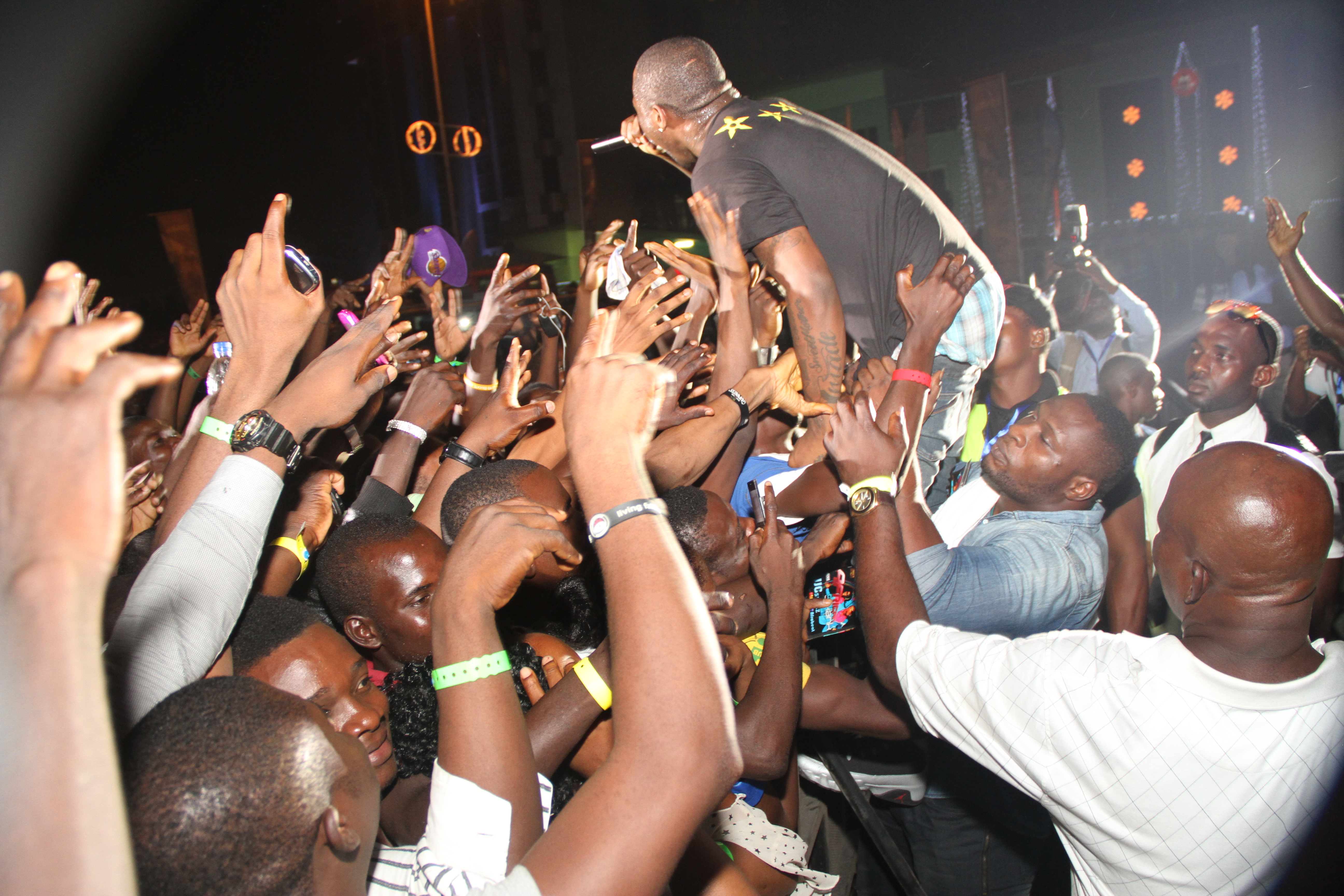 HKN Artiste Davido entertaining the Crowd